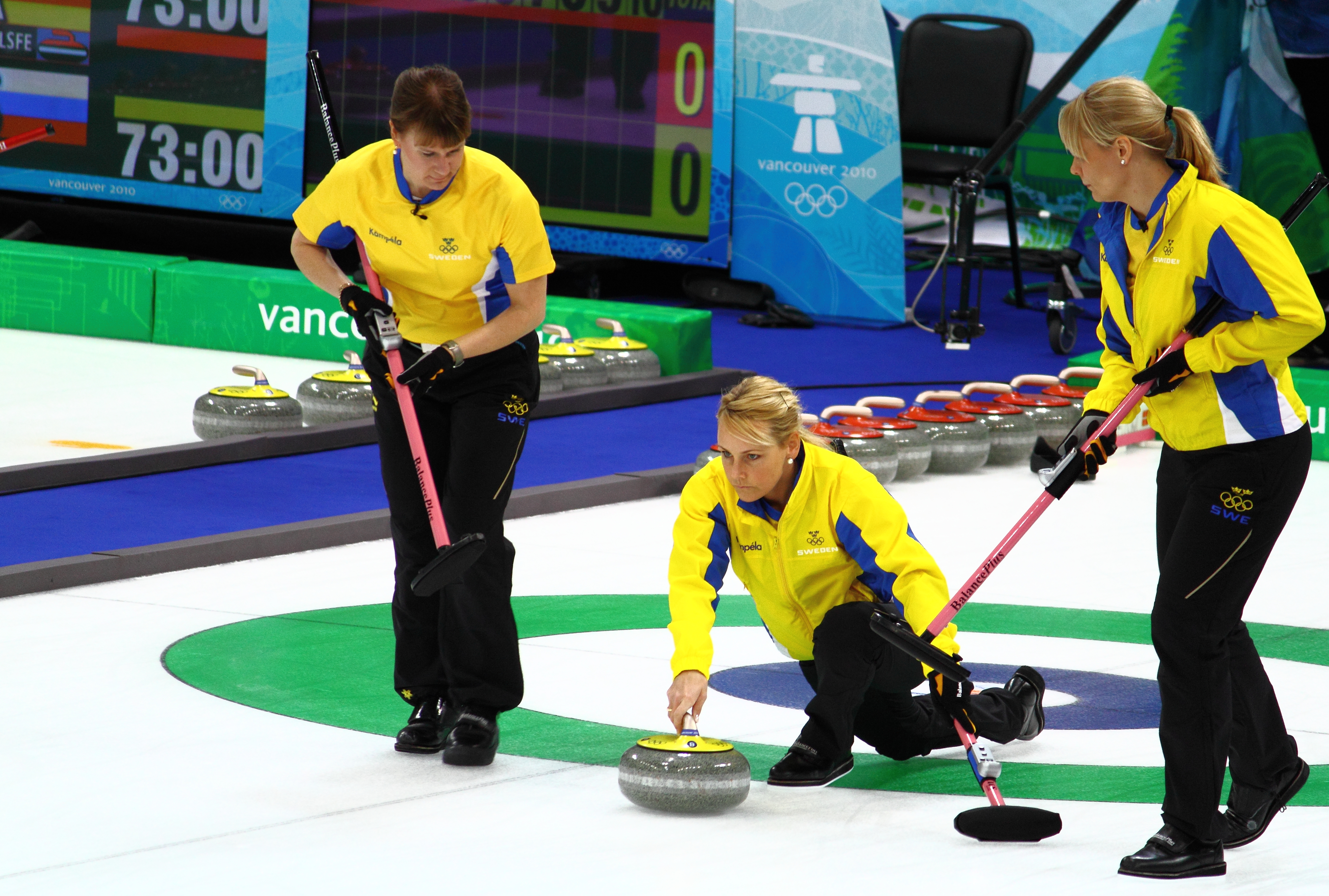 Cathrine Lindahl, Anna Le Moine and Eva Lund (l to r); 2010 Vancouver Olympic Games - Women's Curling - Preliminary from Vancouver Olympic Centre